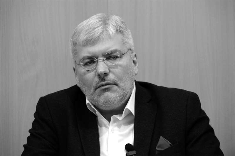 Yevgeny Vodolazkin (born 1964) historian, philologist, medievalist, writer and Russian literary critic, specialist in ancient Russian literature, at the Paris Book Fair, March 17, 2018